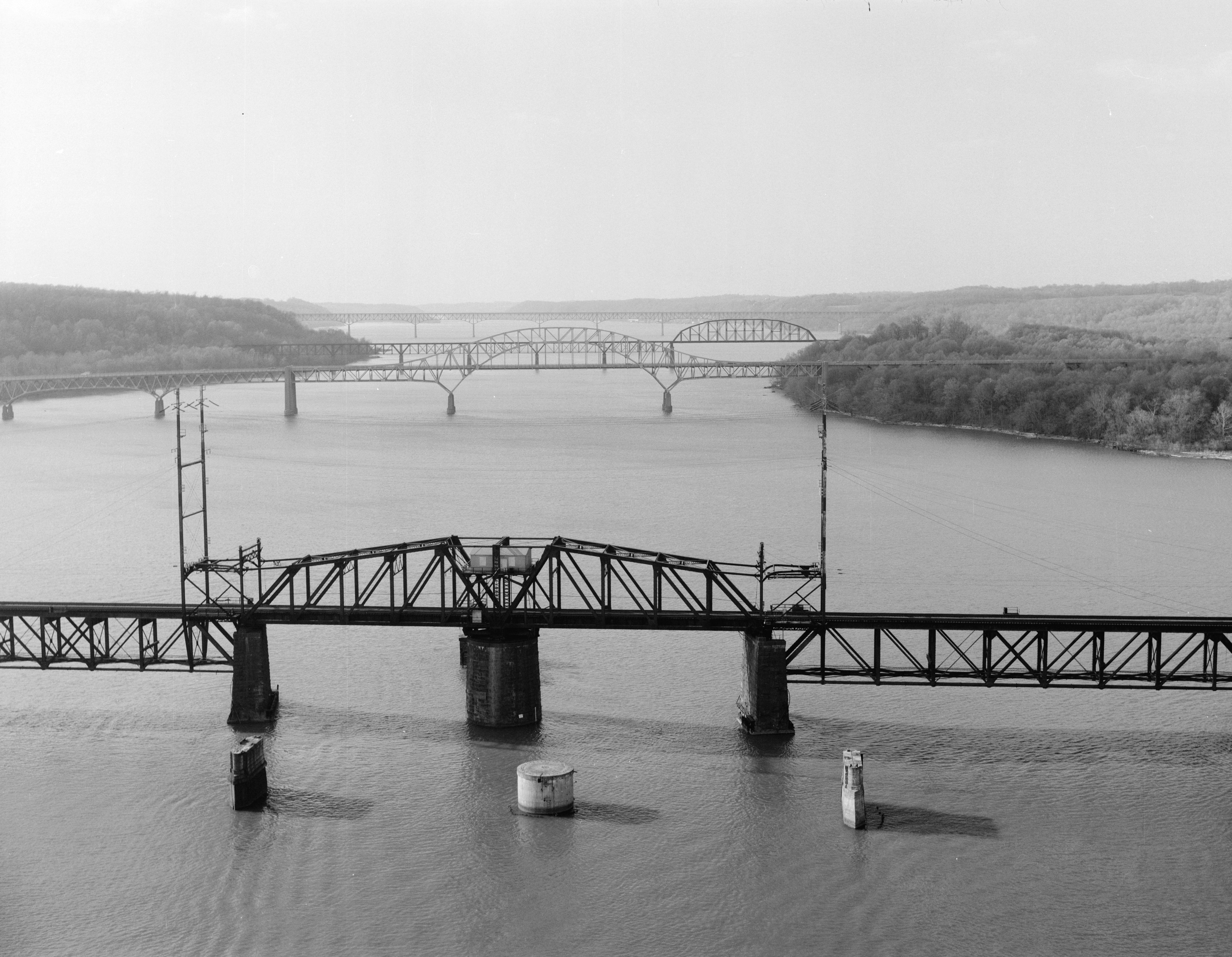 Detail of the center swing span of the Amtrak Susquehanna River Bridge (originally built by the Pennsylvania Railroad). Other bridges visible in this photograph, foreground to background, are: the Thomas J. Hatem US 40 highway bridge, the CSX/B&O railroad bridge, and the Millard E. Tydings I-95 highway bridge.